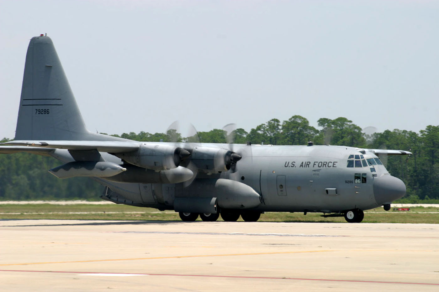 An MC-130W Combat Spear taxis down the Hurlburt Field, Fla., runway. The aircraft's mission is to conduct infiltration, exfiltration and resupply of U.S. and allied special operations forces.